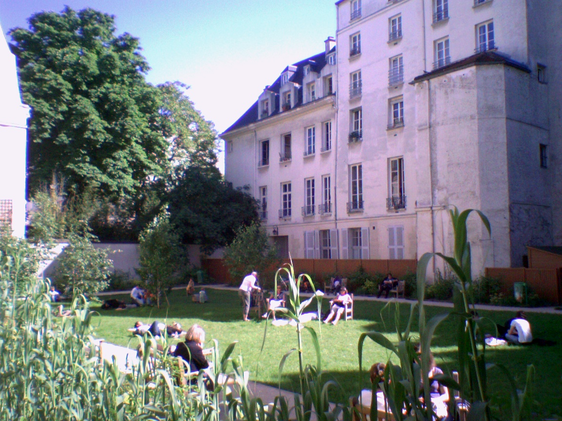 Jardin des Francs-Bourgeois–Rosiers